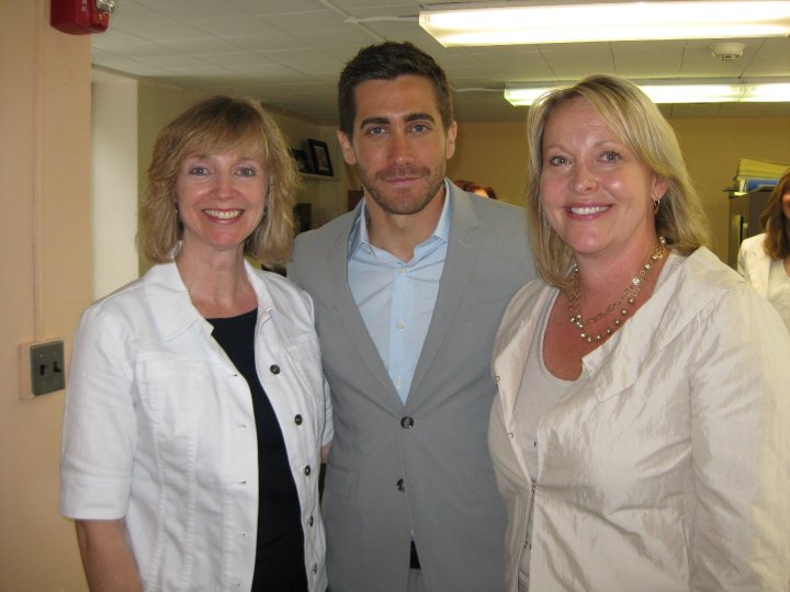 Jake Gyllenhaal on a visit to New Eyes